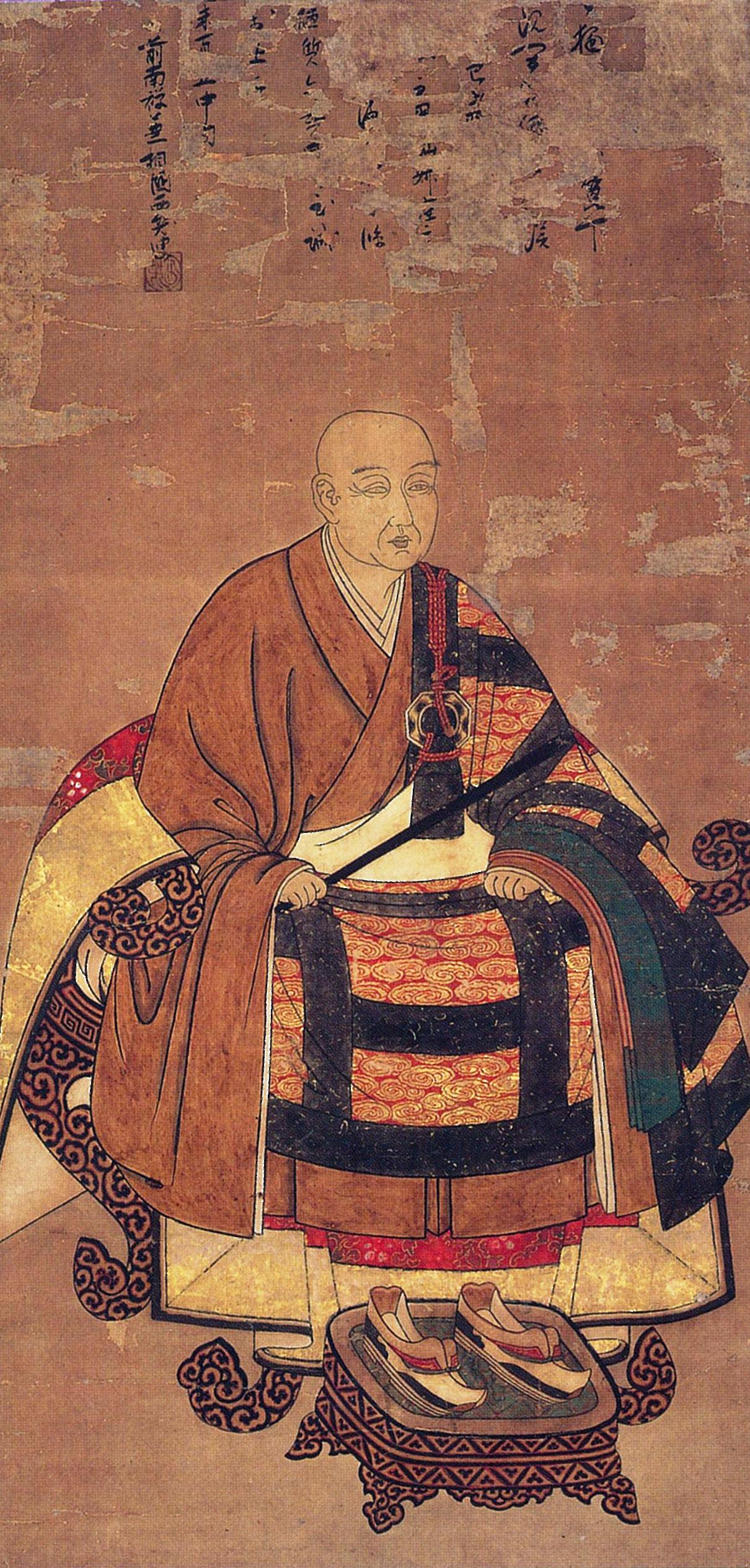 portrait painting of Zen priest, Saishō Jōtai (1548-1608)